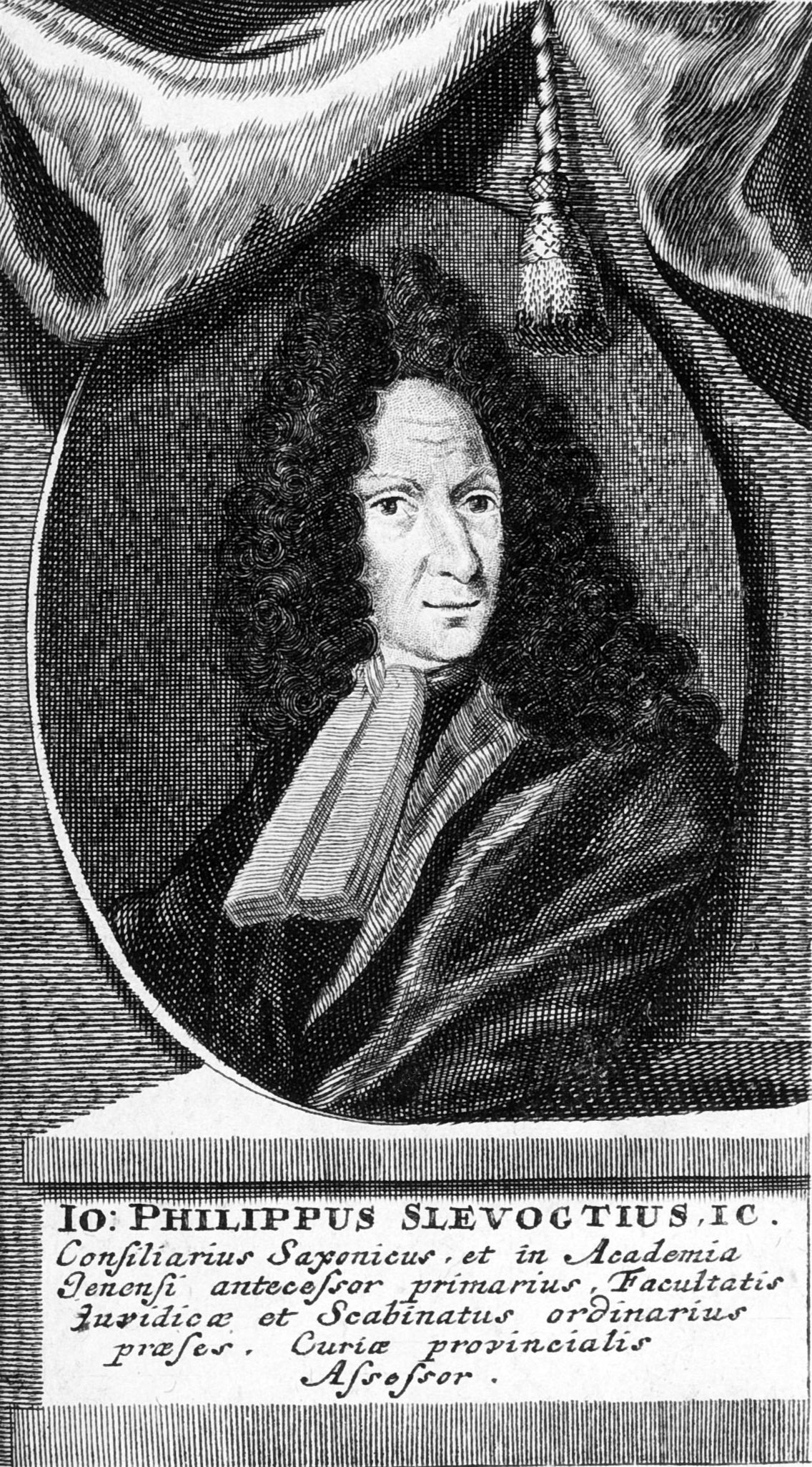 Johann Philipp Slevogt (1649-1727) german elgal scholar